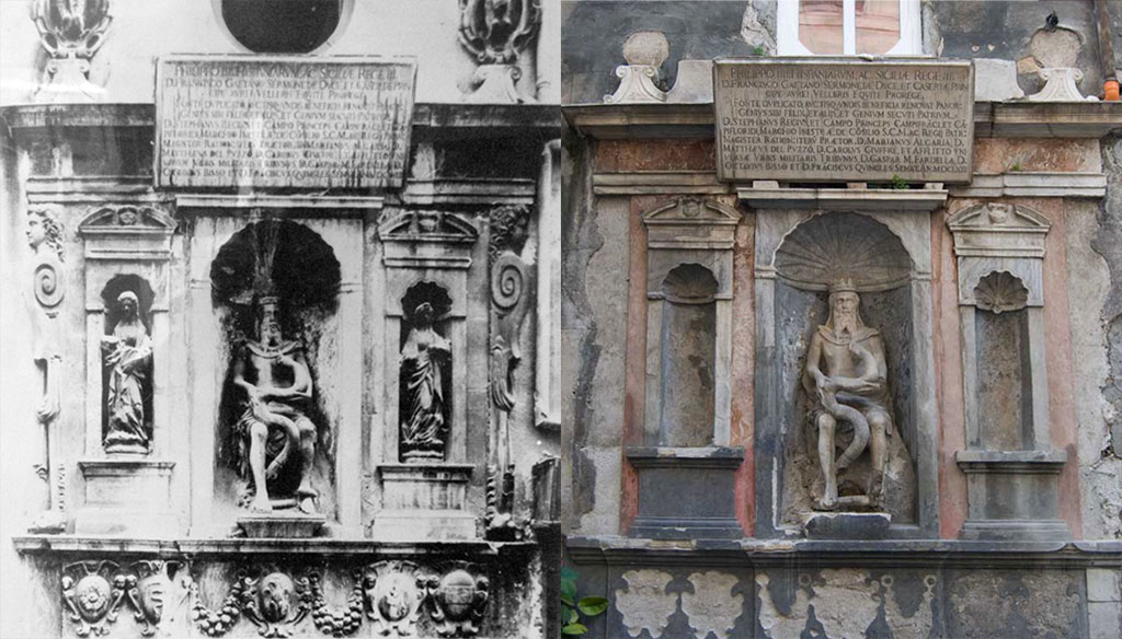 two images of the Genius of Palermo in piazzetta Garraffo taken on 1969 and 2010.